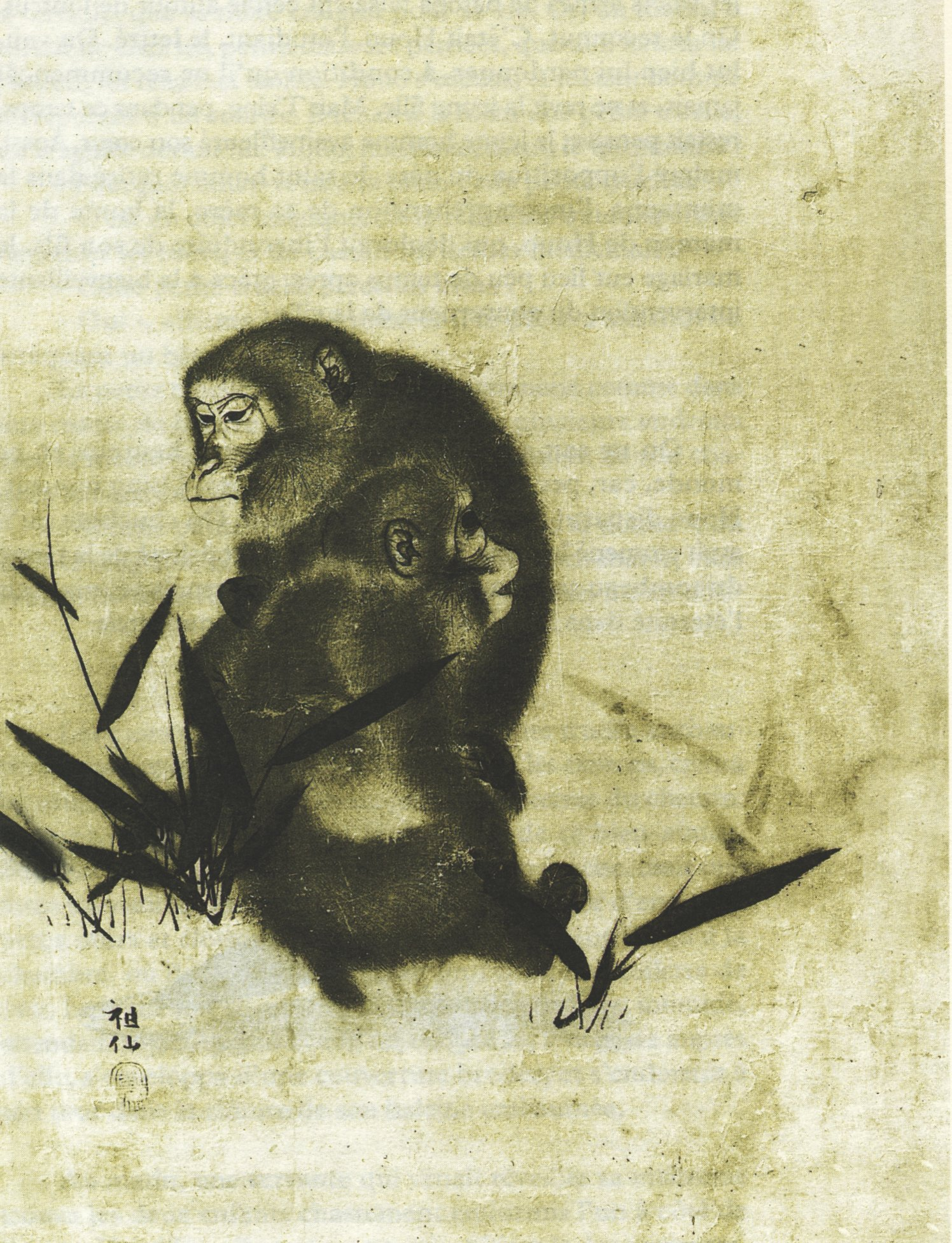 Monkeys